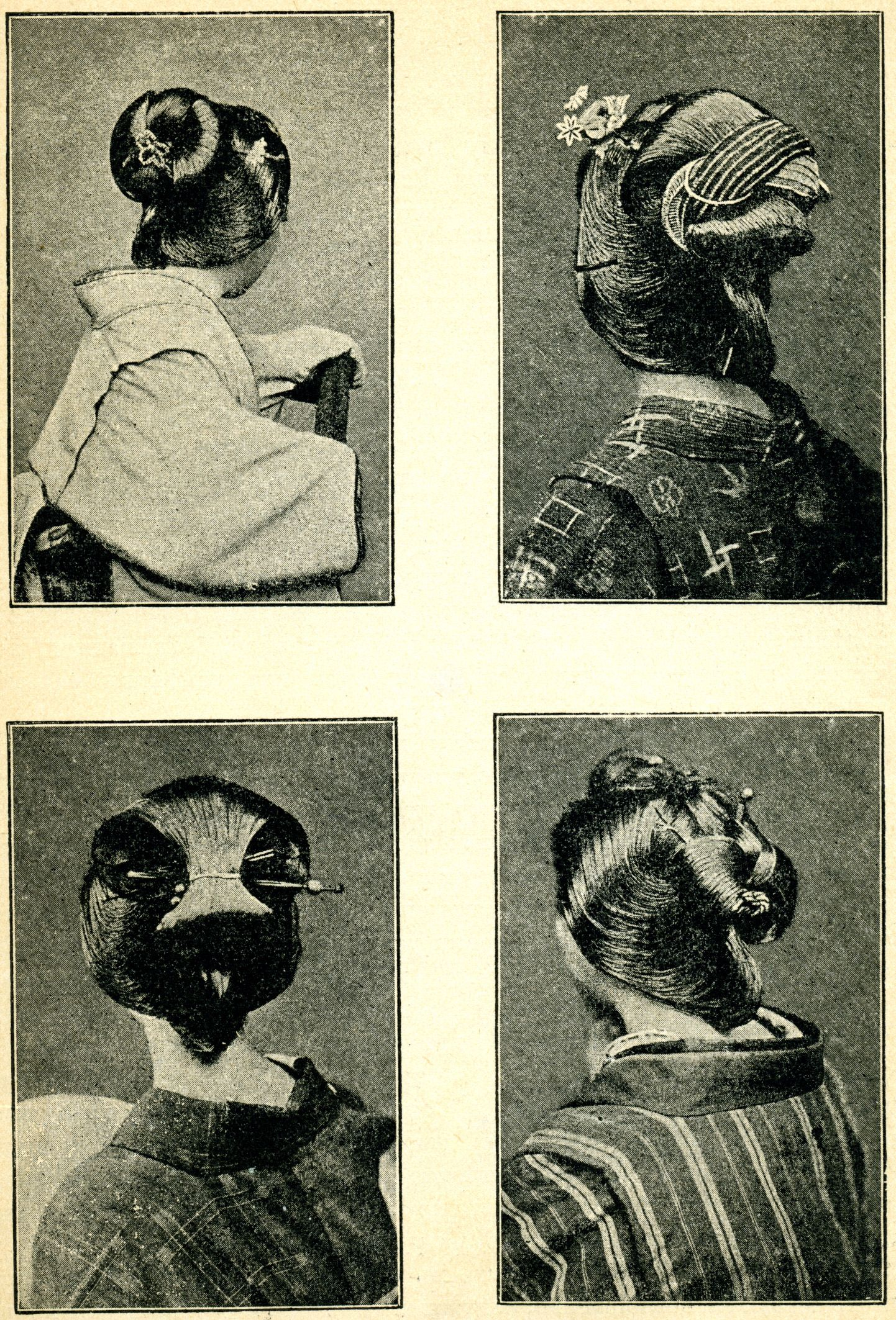 Hairdresses of Japanese. Image from the book "Japan And Japanese" (1902). Page 77